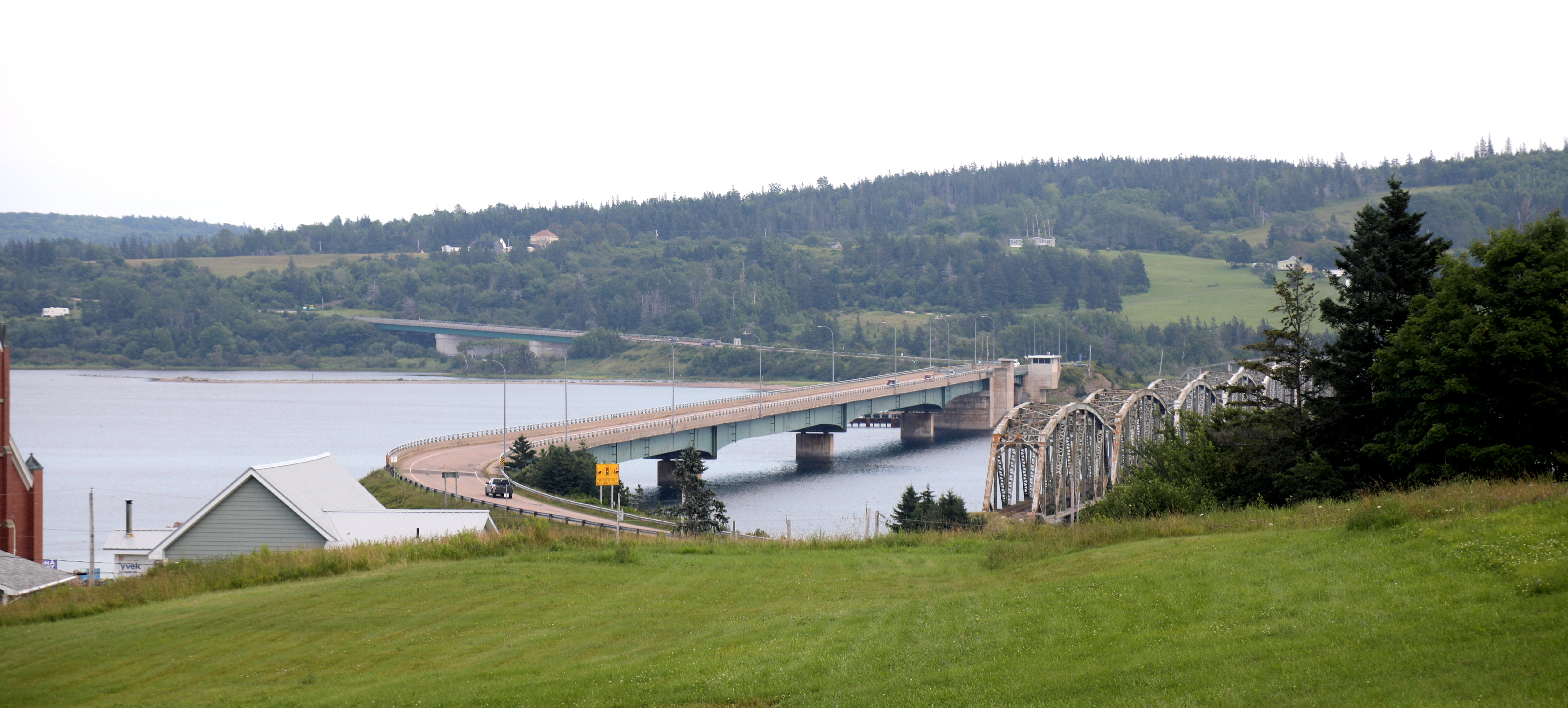 Barra Strait Bridge crossing the Barra Strait of the Bras d'Or Lake, Cape Breton Island as seen Iona, Nova Scotia